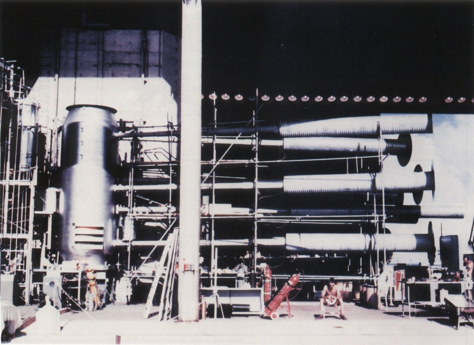 The Sausage device of Mike nuclear test (yield 10.4 Mt) on Enewetak Atoll. The test was part of the Operation Ivy. The Sausage was the first true H-Bomb ever tested, that is - the first thermonuclear device built upon the Teller-Ulam principles of staged radiation implosion. It consisted of a thick steel radiation case (left), containing a TX-5 fission bomb at bottom as a trigger, and above it a dewar containing several hundred liters of liquid deuterium, the fusion fuel, and a plutonium rod called the "sparkplug" to initiate the fusion reaction. The large pipes at right are "light pipes" to conduct the initial radiation emitted by the explosion to remote instruments to study the physics of the thermonuclear reactions.